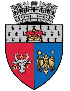 Coat of arms of Focșani, Vrancea County, Romania.